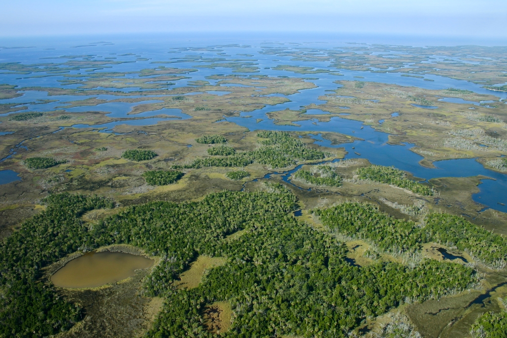 The costal marsh at Chassahowitzka NWR, located approximately 65 miles north of St. Petersburg, FL. It is home to a multitude of species, including the endangered West Indian manatee.